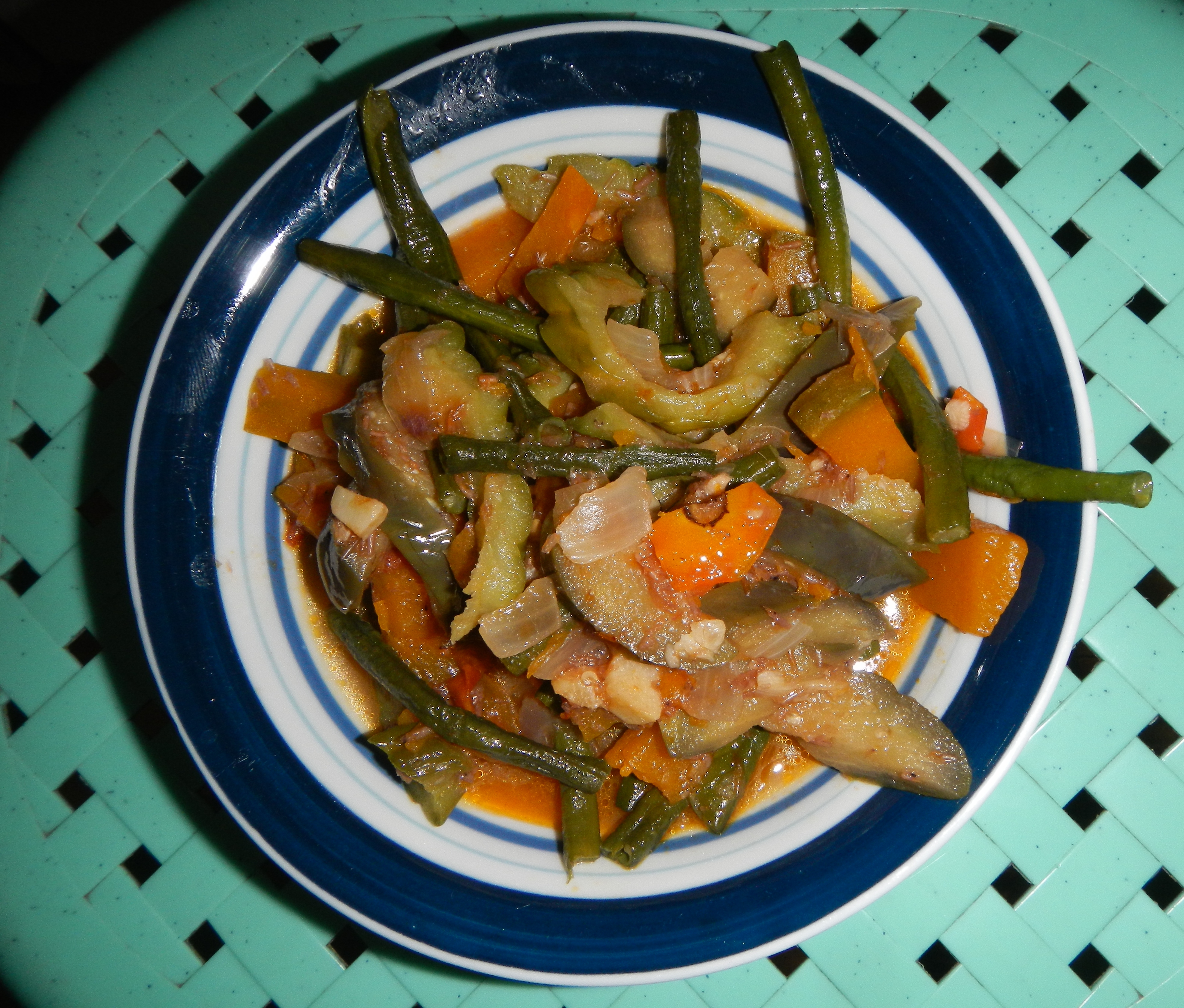 Pakbet vegetable